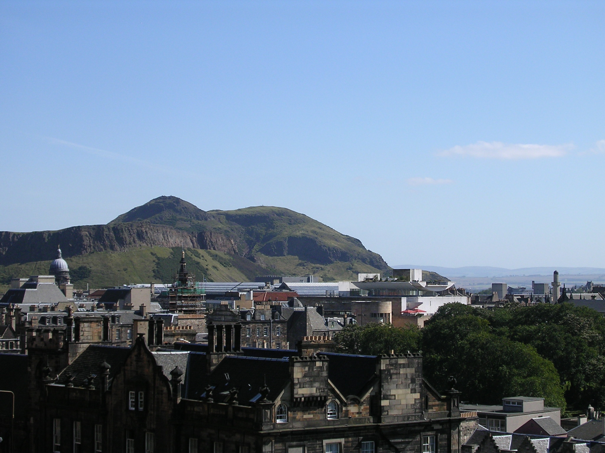 Arthur's Seat and the Old Town of Edinburgh, viewed from the Castle